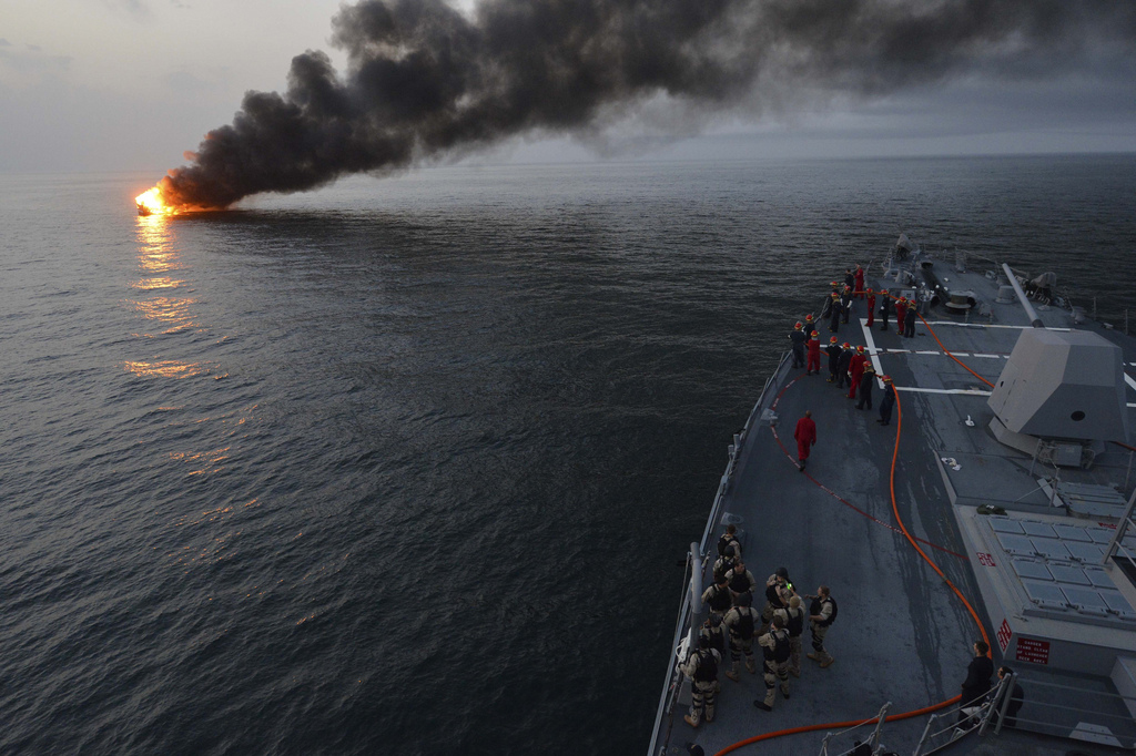 U.S. Sailors aboard the guided missile destroyer USS William P. Lawrence (DDG 110) prepare to offer rescue assistance to a burning vessel March 11, 2013, during a transit in the Strait of Hormuz. The William P. Lawrence was deployed to the U.S. 5th Fleet area of responsibility to promote maritime security operations, theater security cooperation efforts and support missions for Operation Enduring Freedom.